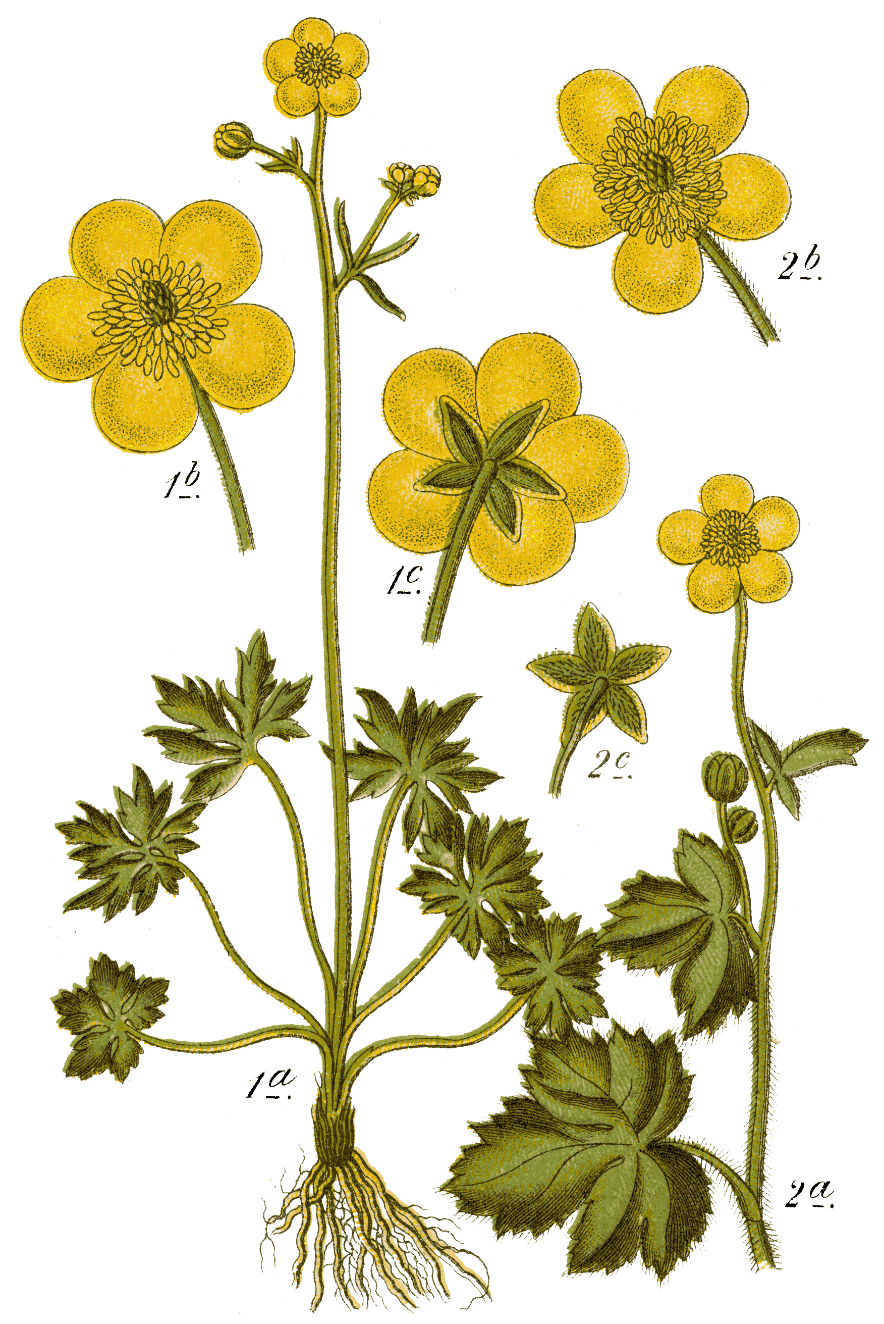 1. Ranunculus acris L. 2. Ranunculus lanuginosus L. Original Description 1. Scharfer Hanenfuss, Ranunculus acris 2. Wolliger Hahnenfuss, Ranunculus lanuginosus